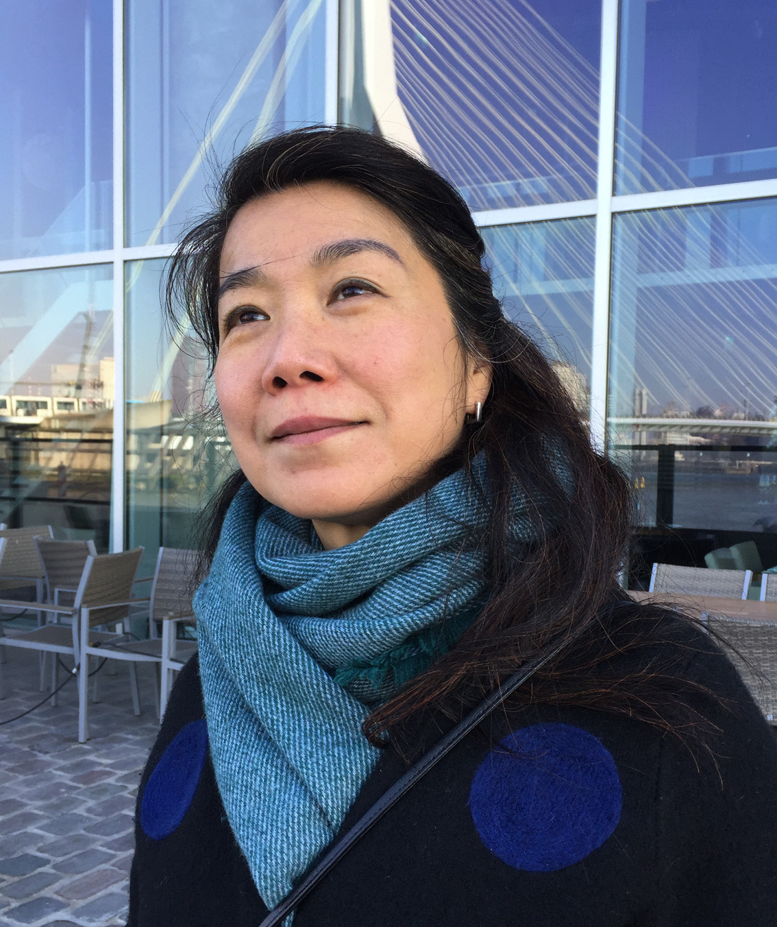 Xing Danwen (Chinese: 邢丹文, family name is Xing) is an artist born in Xi'an, China. She currently lives and works in Beijing.